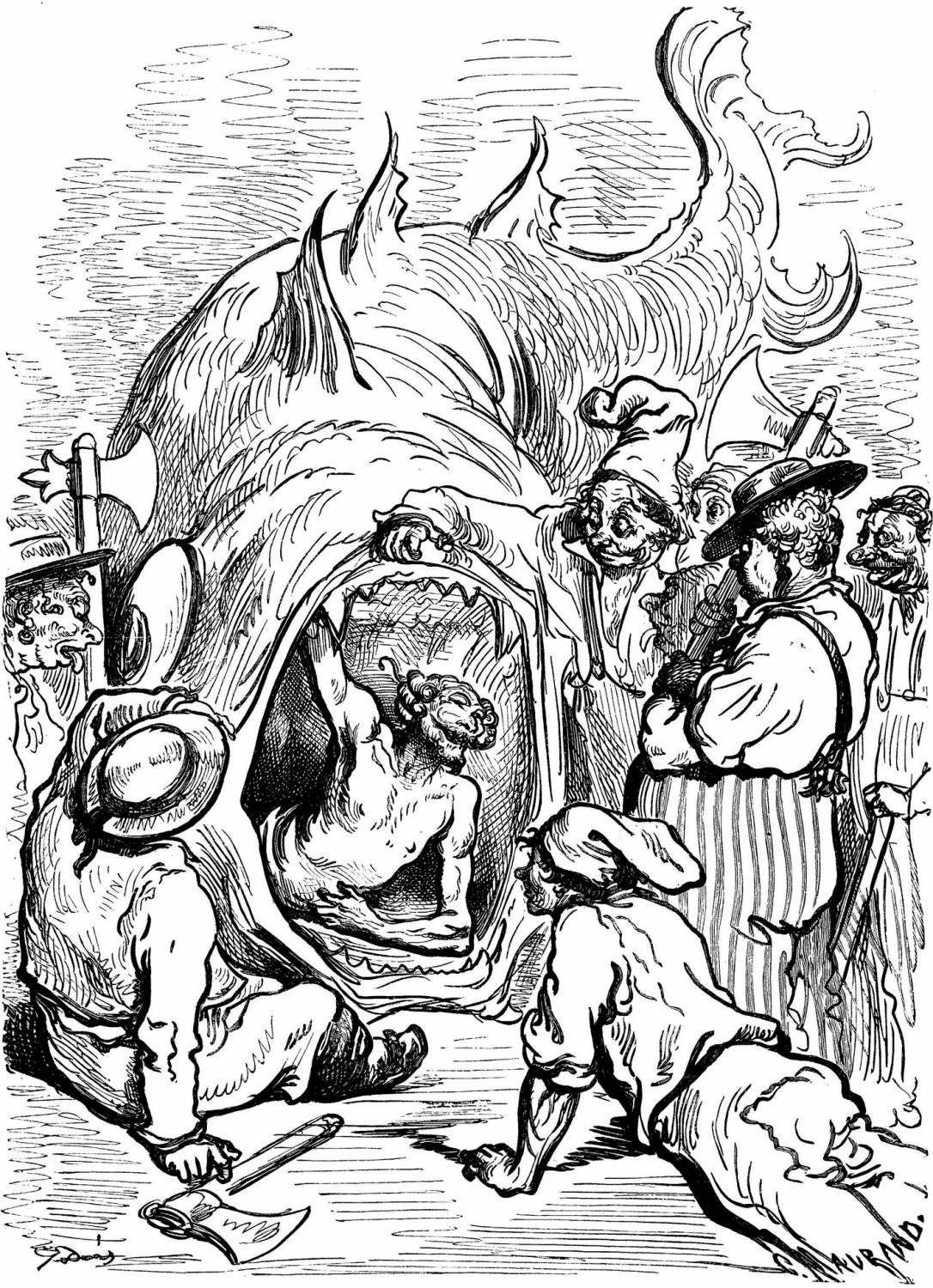 Illustrations of Baron von Münchhausen by Gustave Doré